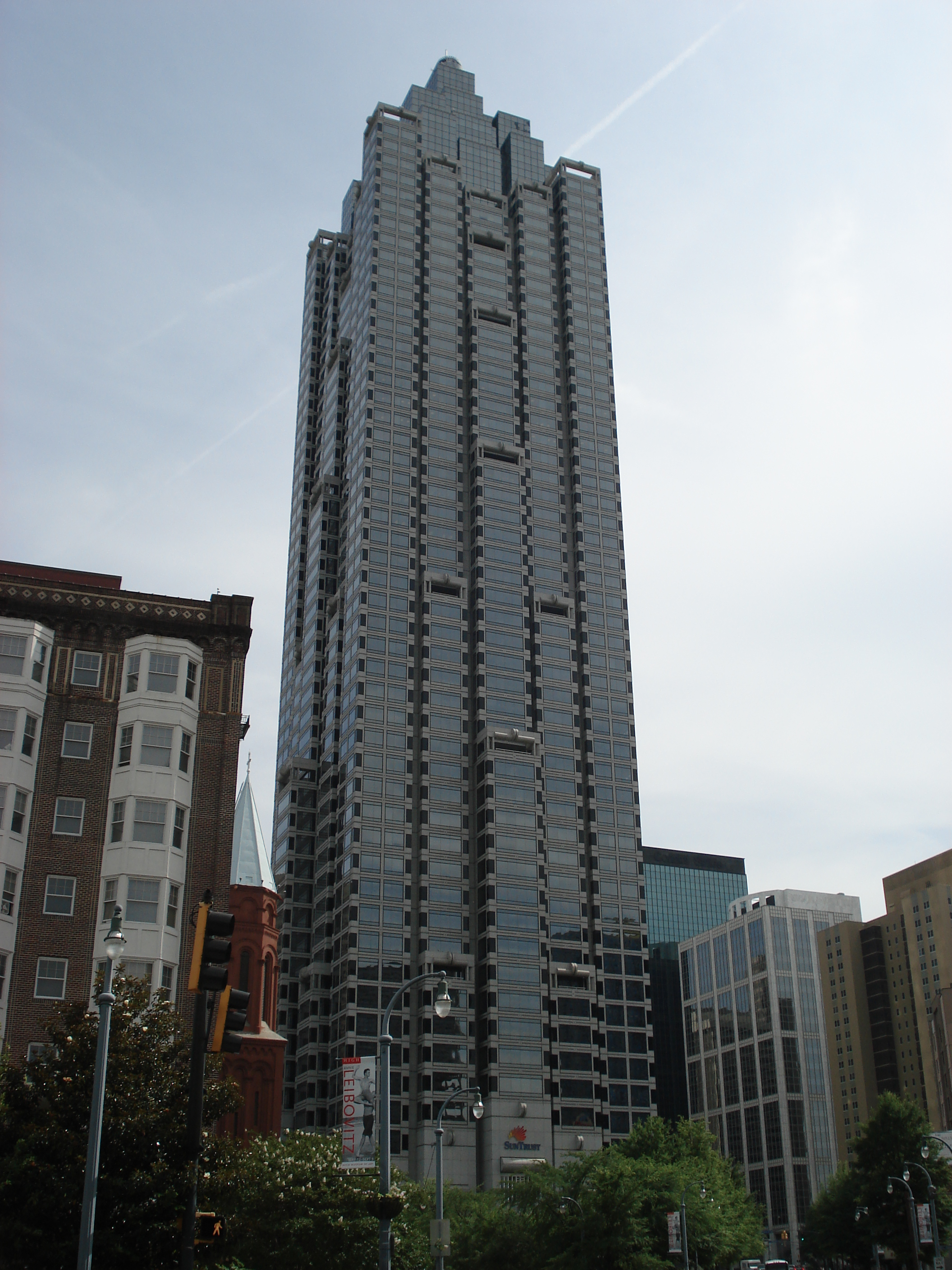 SunTrust Headquarters, Downtown Atlanta